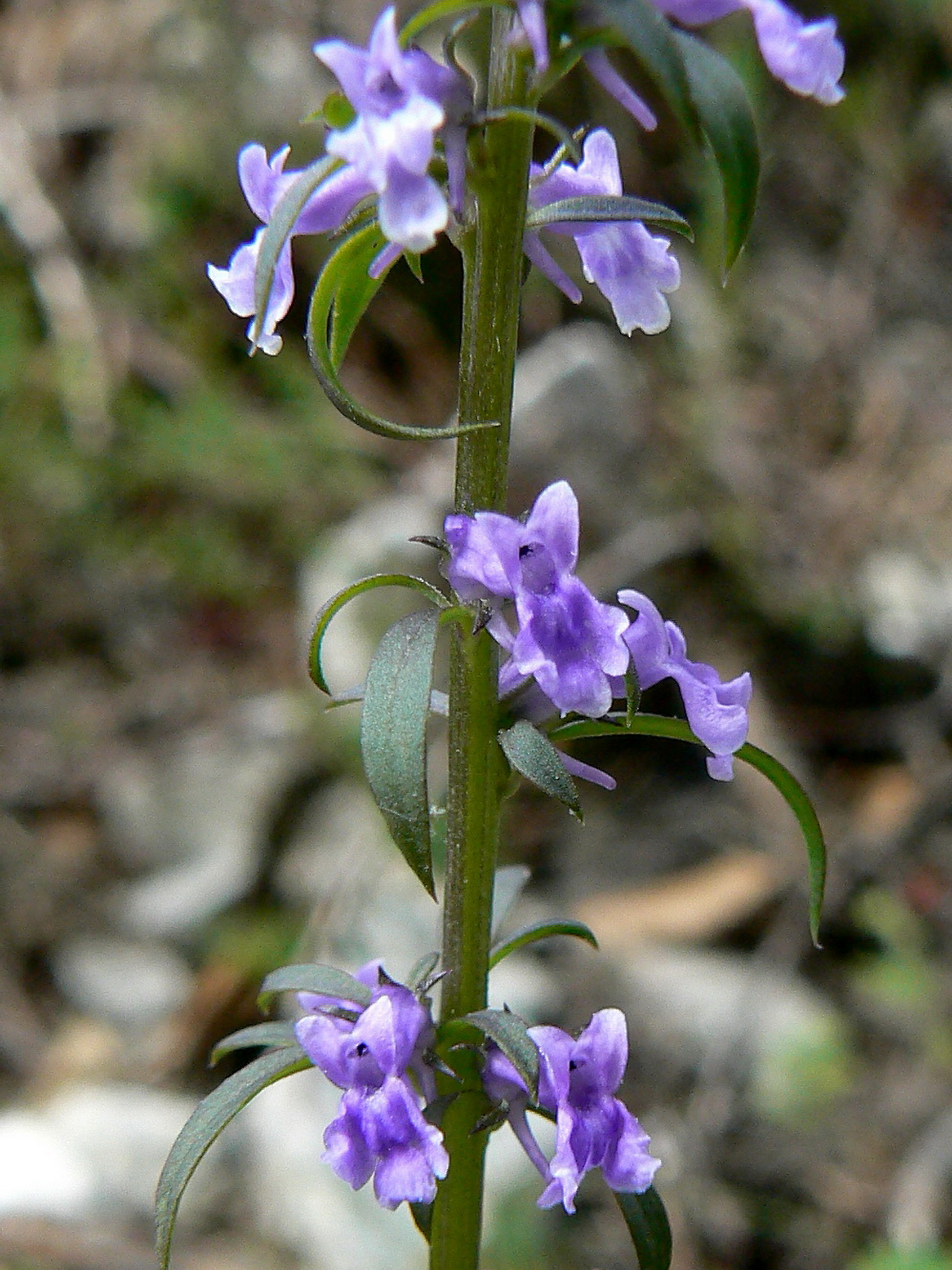 Anarrhinum bellidifolium, Picos de Europa, Spain